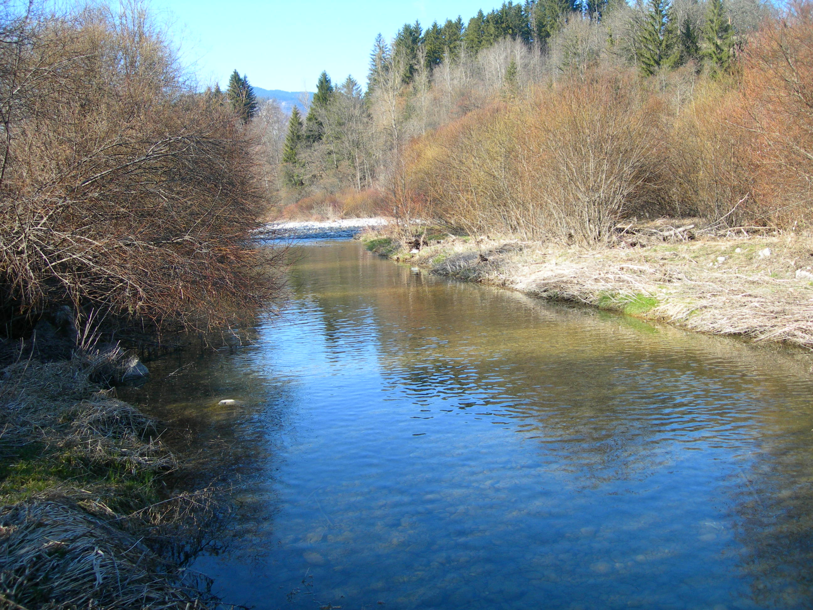 Chéran (in Lescheraines, France) March 2009